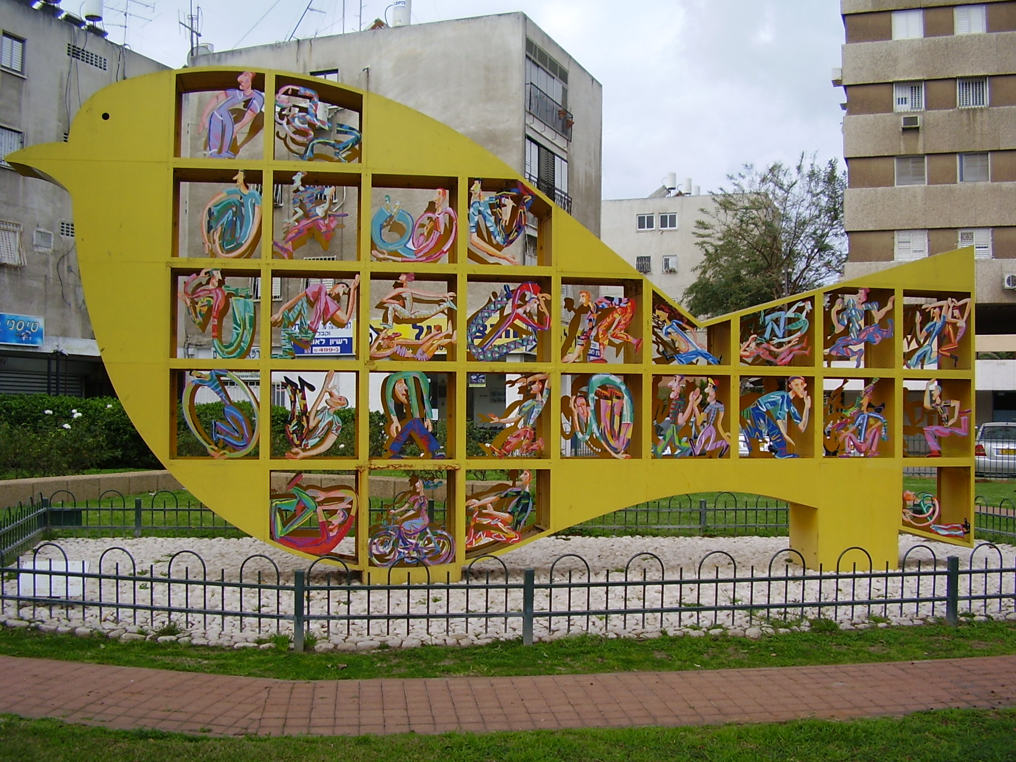 \"soul bird\" in holon